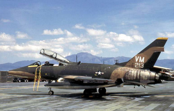 A U.S. Air Force North American F-100F Super Sabre (s/n 58-1213) of the 352nd Tactical Fighter Squadron, 35th Tactical Fighter Wing, Phan Rang Air Base, South Vietnam, in 1971. This aircraft was retired to the MASDC on 29 November 1971 and declared excess on 10 April 1972.